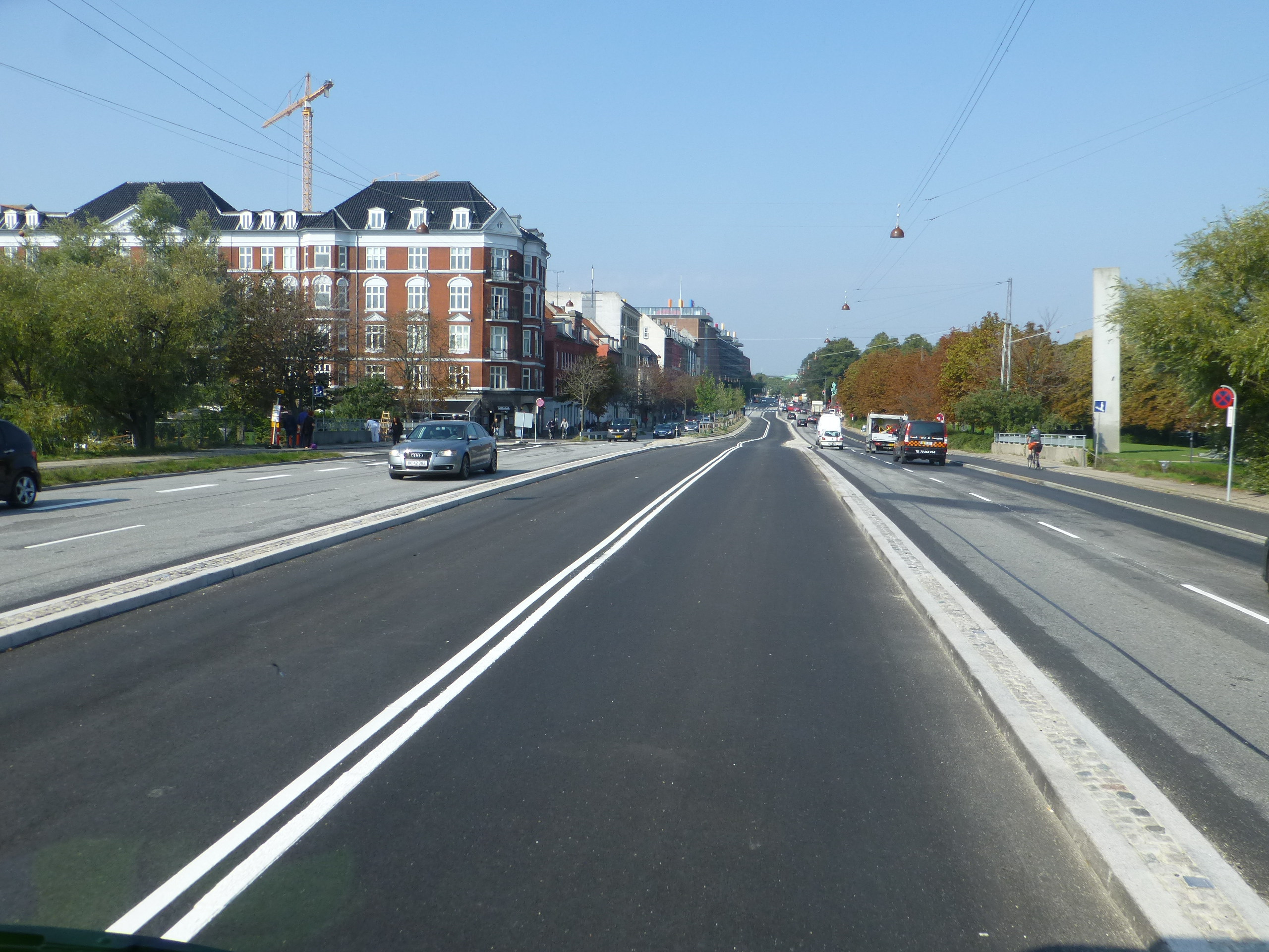 Den kvikke vej (the quick way), a bus rapid transit between Fredensbro and Lyngbyvej in Østerbro in Copenhagen. Front view from the opening tour on Fredensbro.